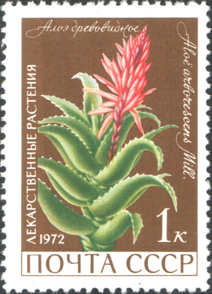 USSR stamp